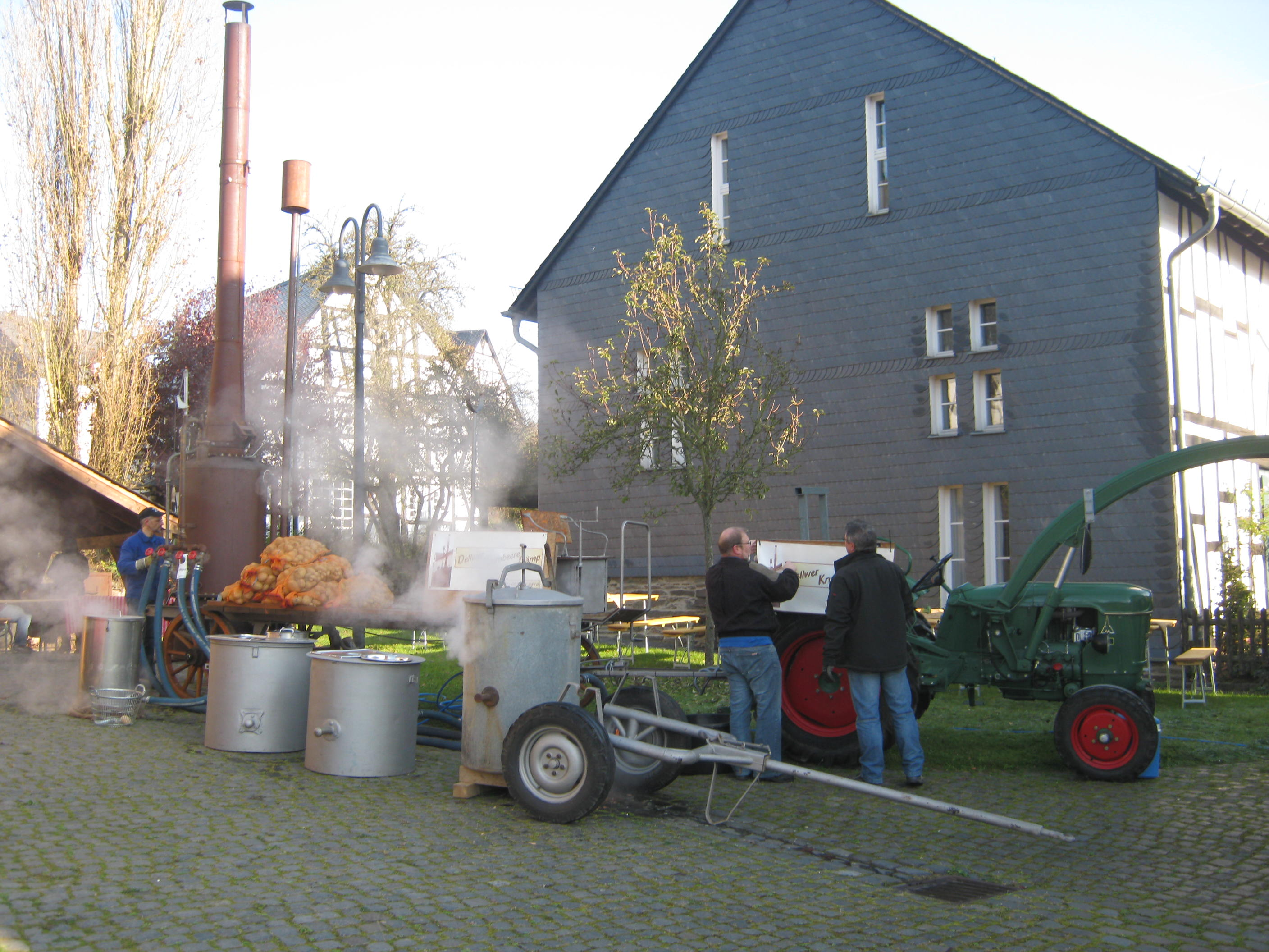 Kartoffeldämpfer